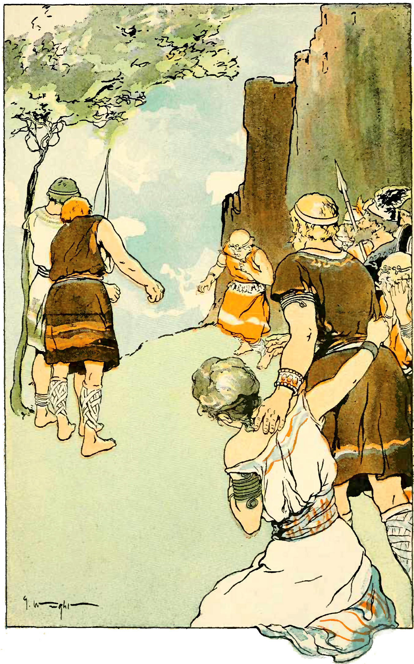 Captioned as "The little spring of mistletoe pierced the heart of Balder". Illustrating the death of Baldr.